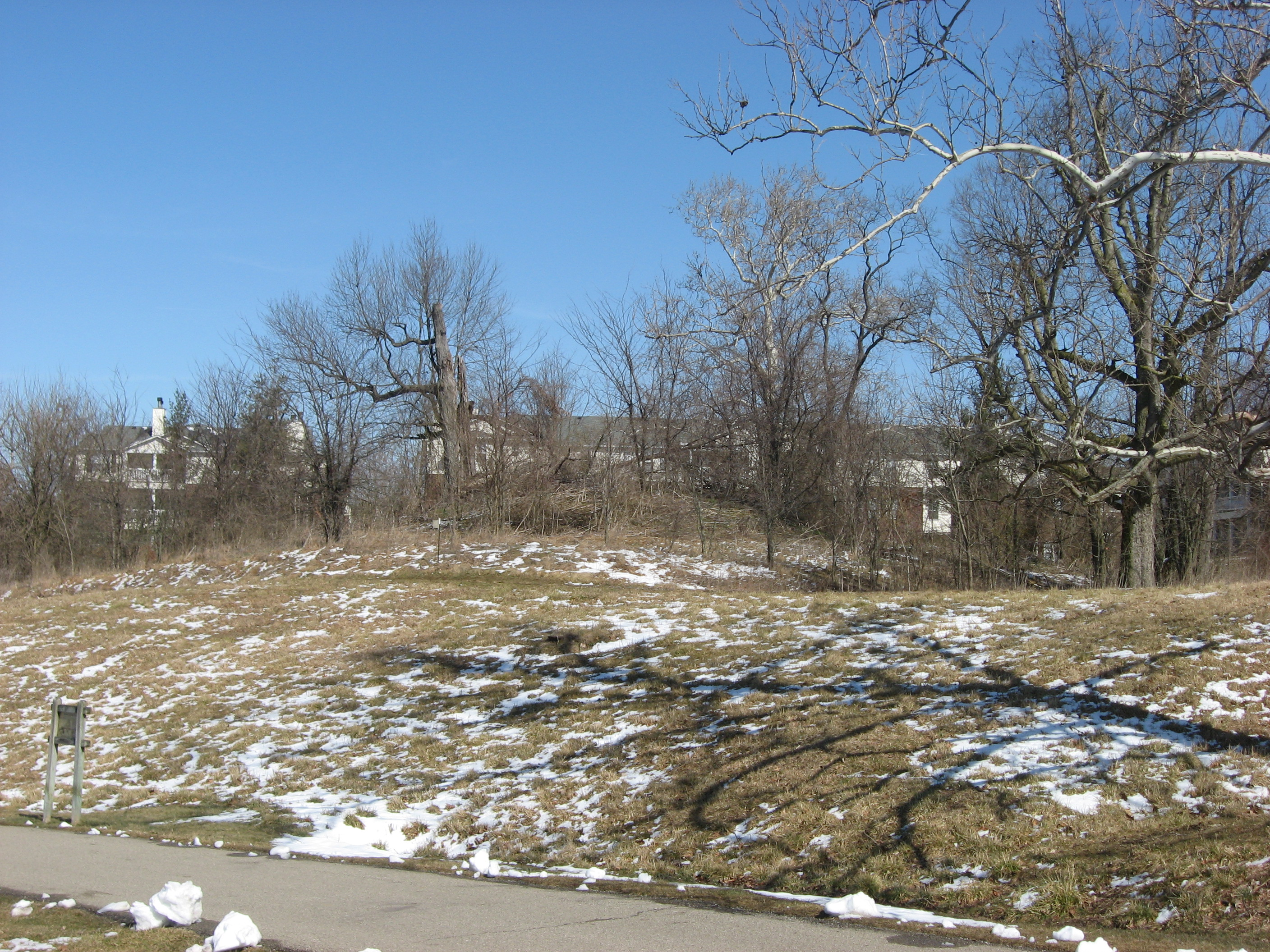 View from the south of the Burchenal Mound, located in Glenwood Gardens Park off Springfield Pike in Norwood, Ohio, United States. The mound is an archaeological site and listed on the National Register of Historic Places.